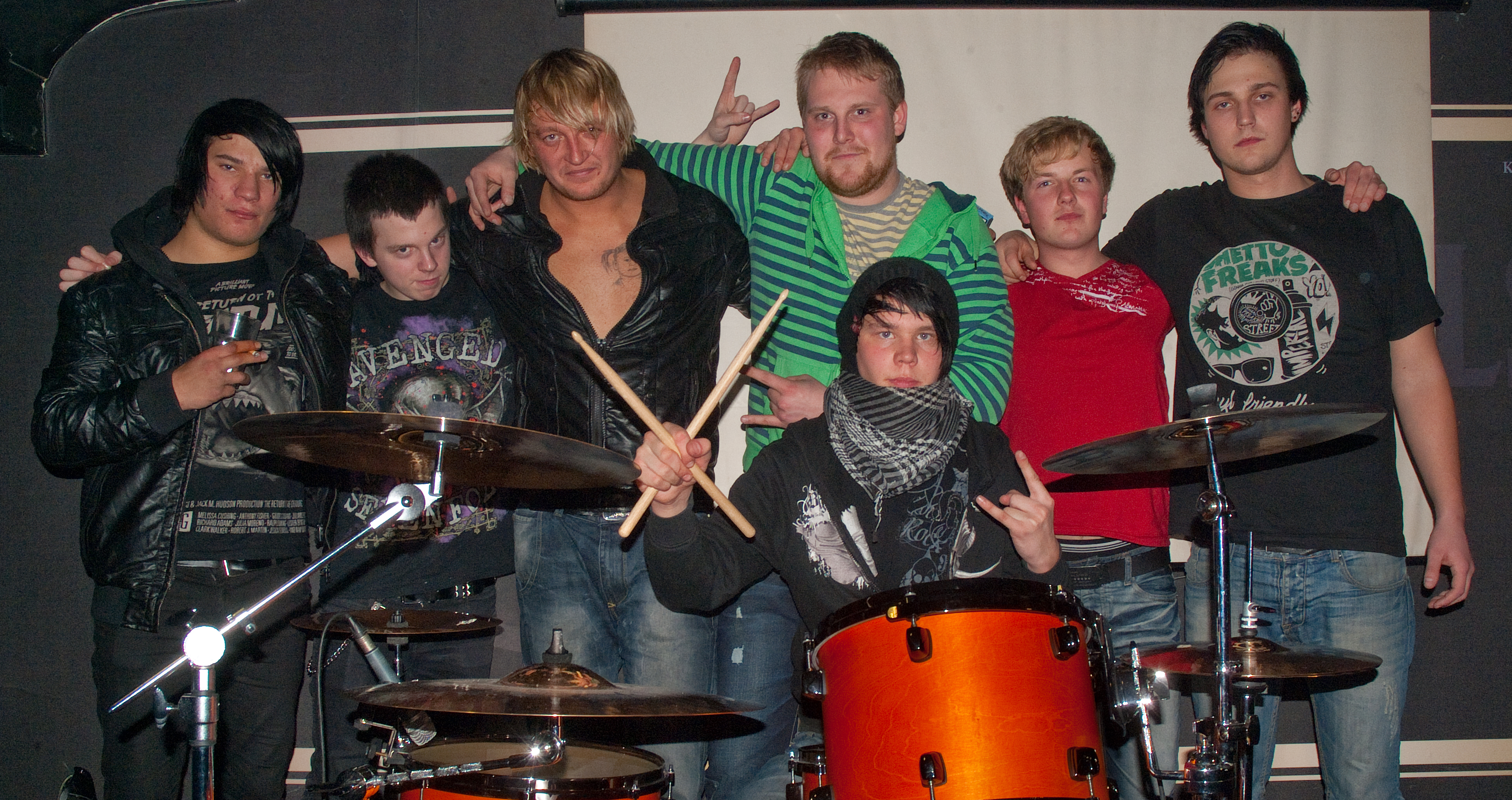 After the show in Plovdiv, Bulgaria.